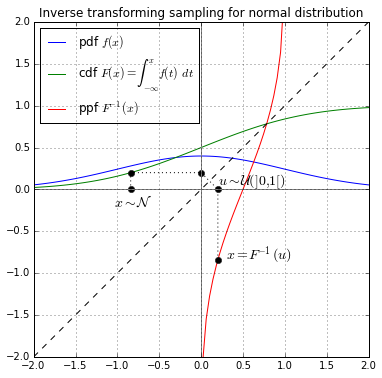 Illustration of the inverse transform sampling